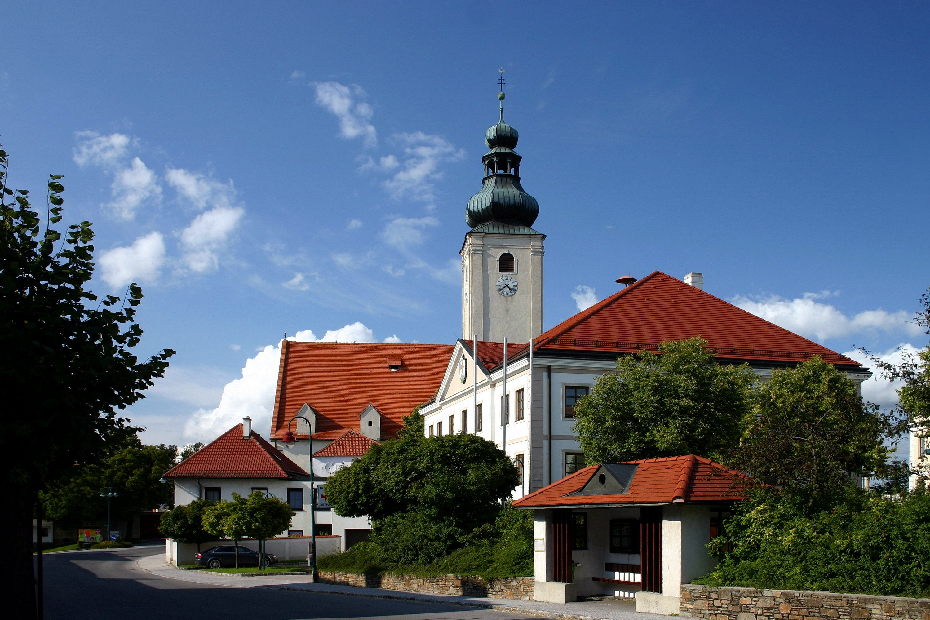 Municipality Wiesmath in Lower Austria. – The photo shows the municipality office of Wiesmath. In the background the parish church Saints Peter nnd Paul.